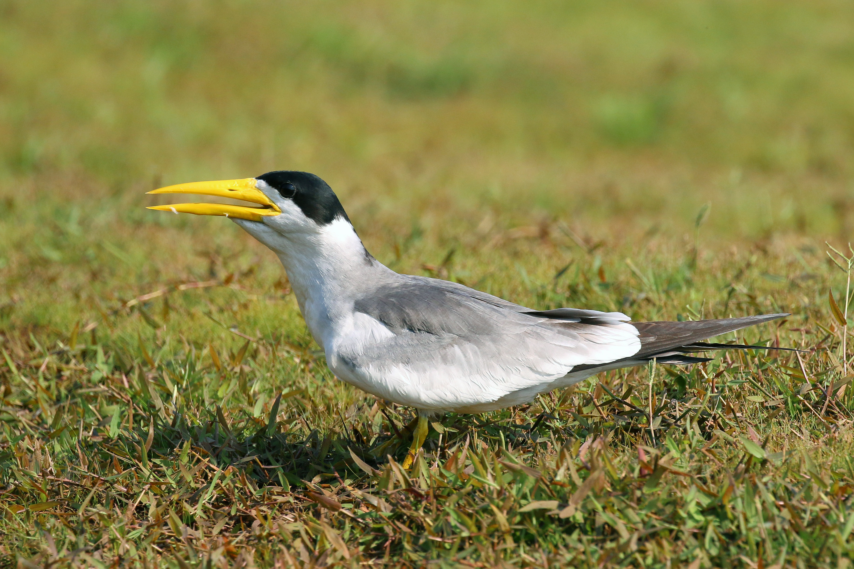 Large-billed tern (Phaetusa simplex), in the Pantanal, Brazil